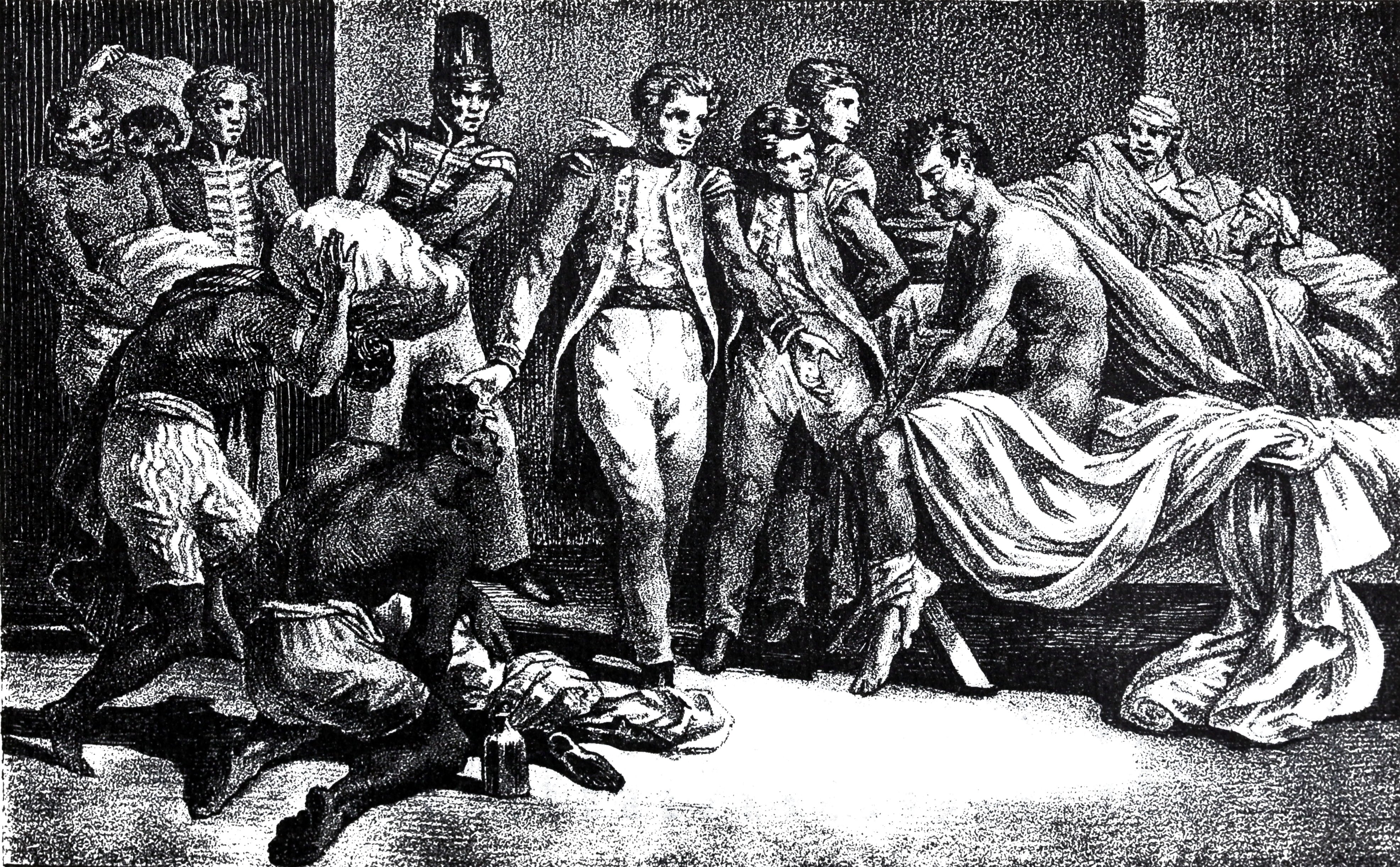 Sailors of the Méduse detained by the British. Lithography by C. Motte, rue des Marais, after Théodore Géricault.